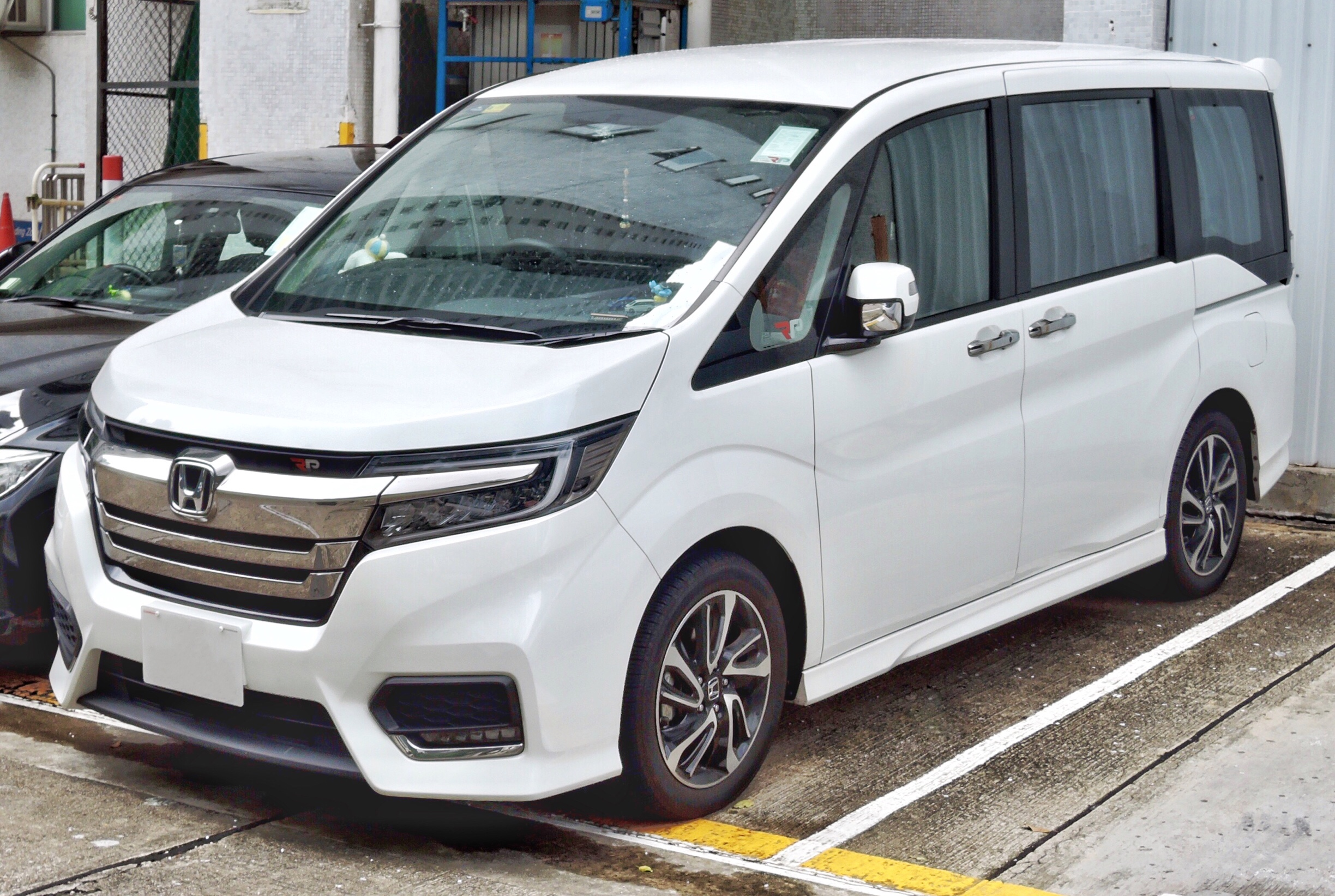 A 2018 Honda Stepwgn taken in Tsuen Kwan O, Hong Kong.